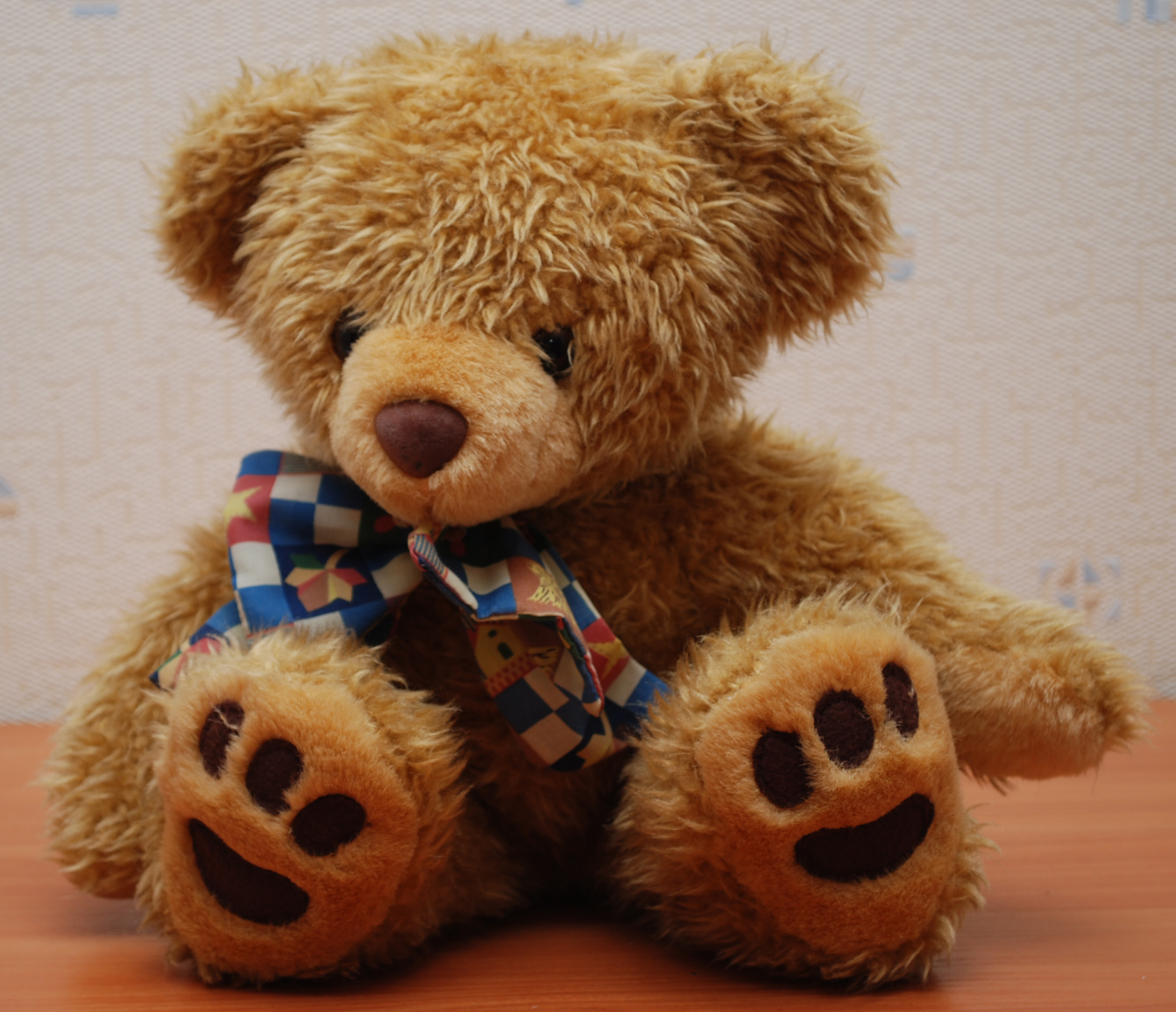 Experiments with direction of flesh light. Flesh pointed directly to the ceiling